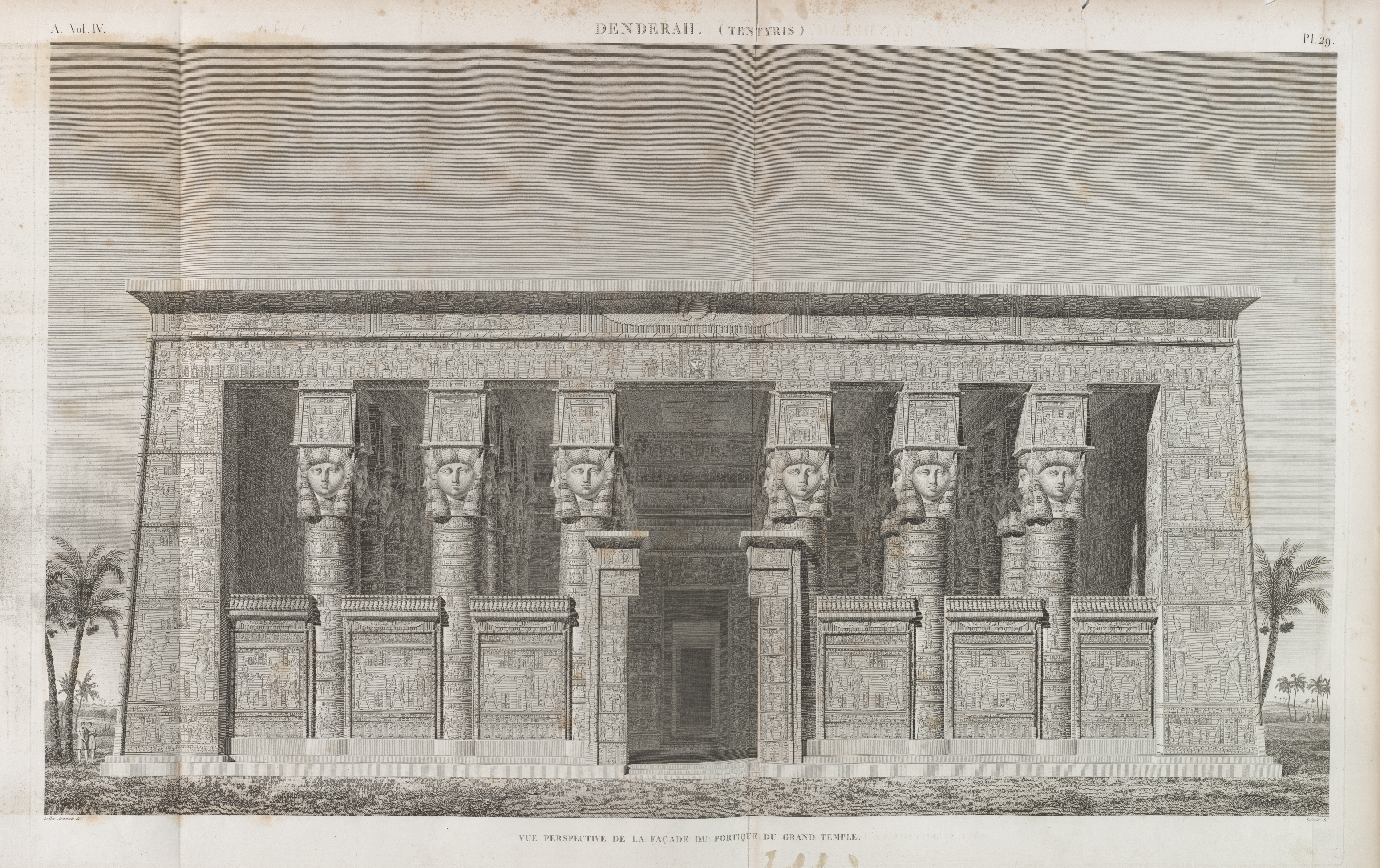 Denderah [Dandara] (Tentyris). Vue perspective de la façade du portique du Grand Temple.